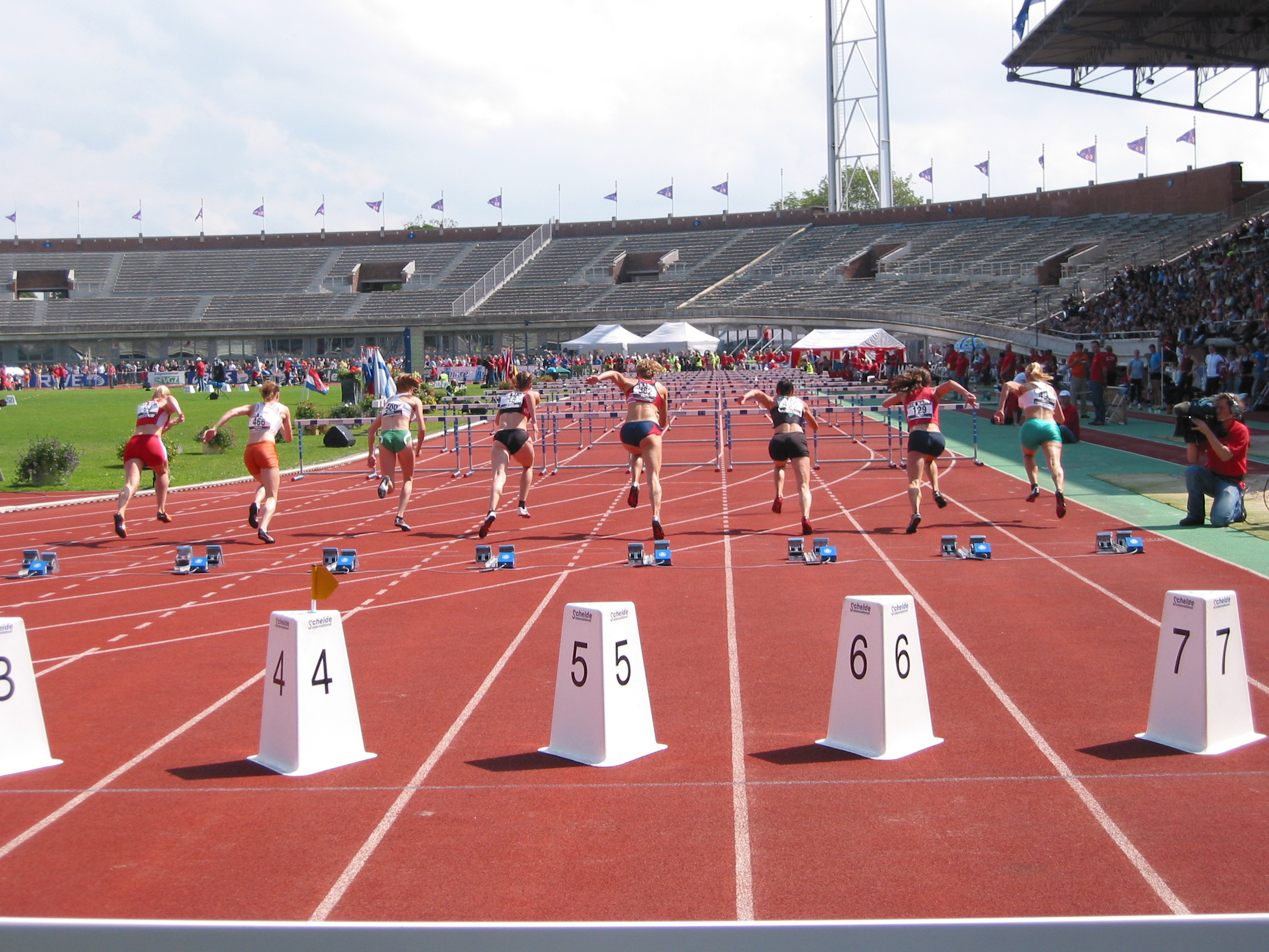 Dutch Championships 2007, Amsterdam, 100 meter hurdles